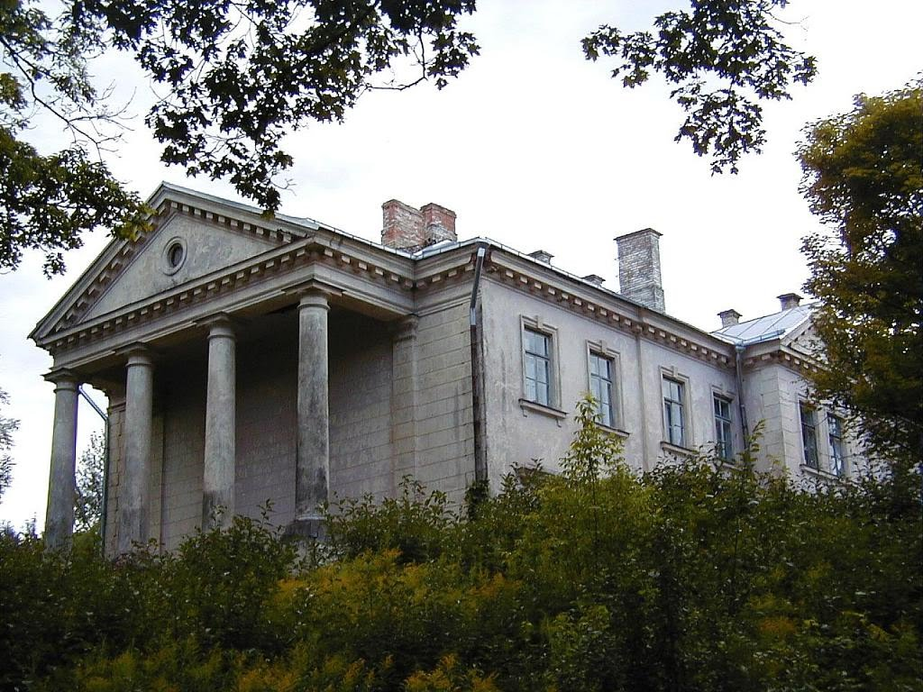 Ilgen manor